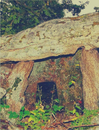 Belevren dolmen BG